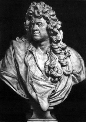 Bust of the French composer Jean-Baptiste Lully (1632–1687), reputedly by sculptor Antoine Coysevox, but today attributed to Gaspard Collignon (1673–1702). The original, in bronze, is located on top of Lully's funerary monument (created by Michel Cotton) at the basilica Petits-Pères (now Notre-Dame-des-Victoires), Paris.